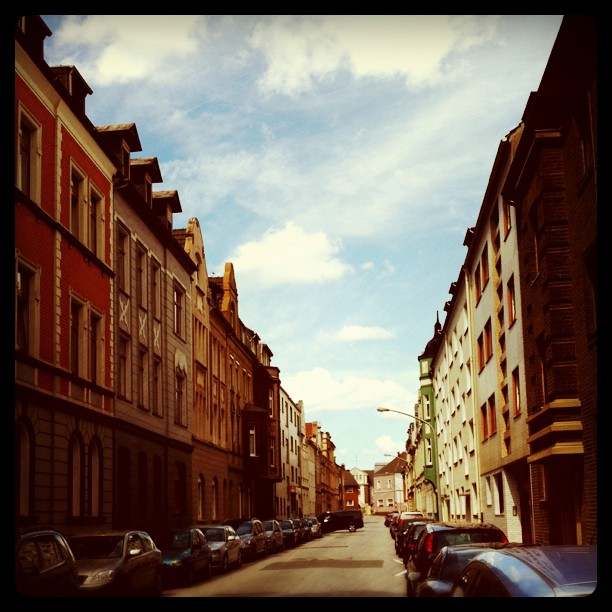 Street in Duisburg-Meiderich